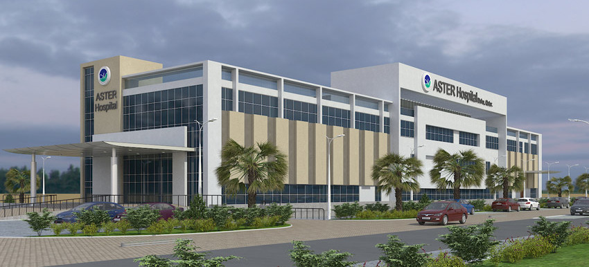 Proposed Aster Hospital situated near Family Food Centre, Old Airport Road, Doha, Qatar